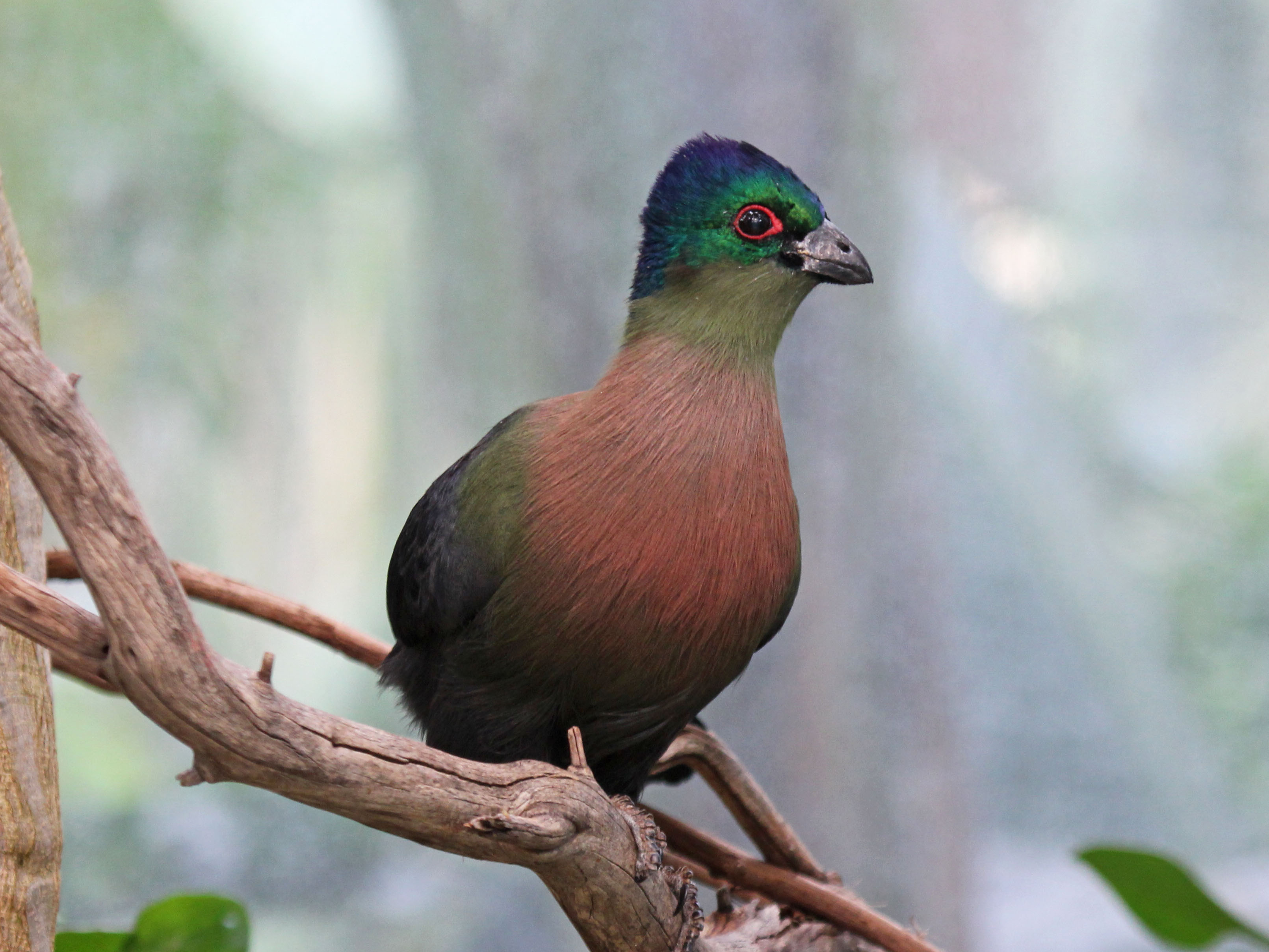 Purple-crested Turaco (Tauraco porphyreolophus) - San Diego Zoo